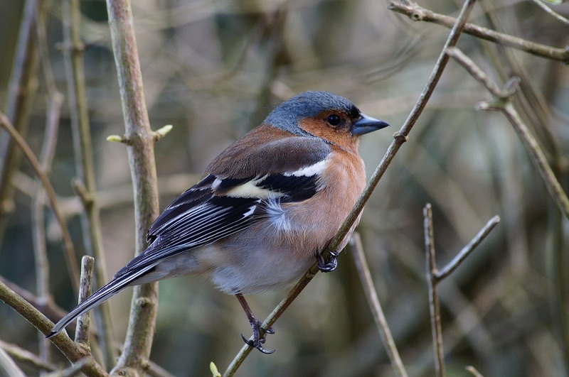 Chaffinch (Fringilla coelebs) male